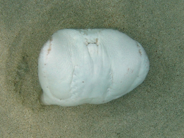 Marbled electric ray (Torpedo marmorata) in defensive posture, off Corsica, France